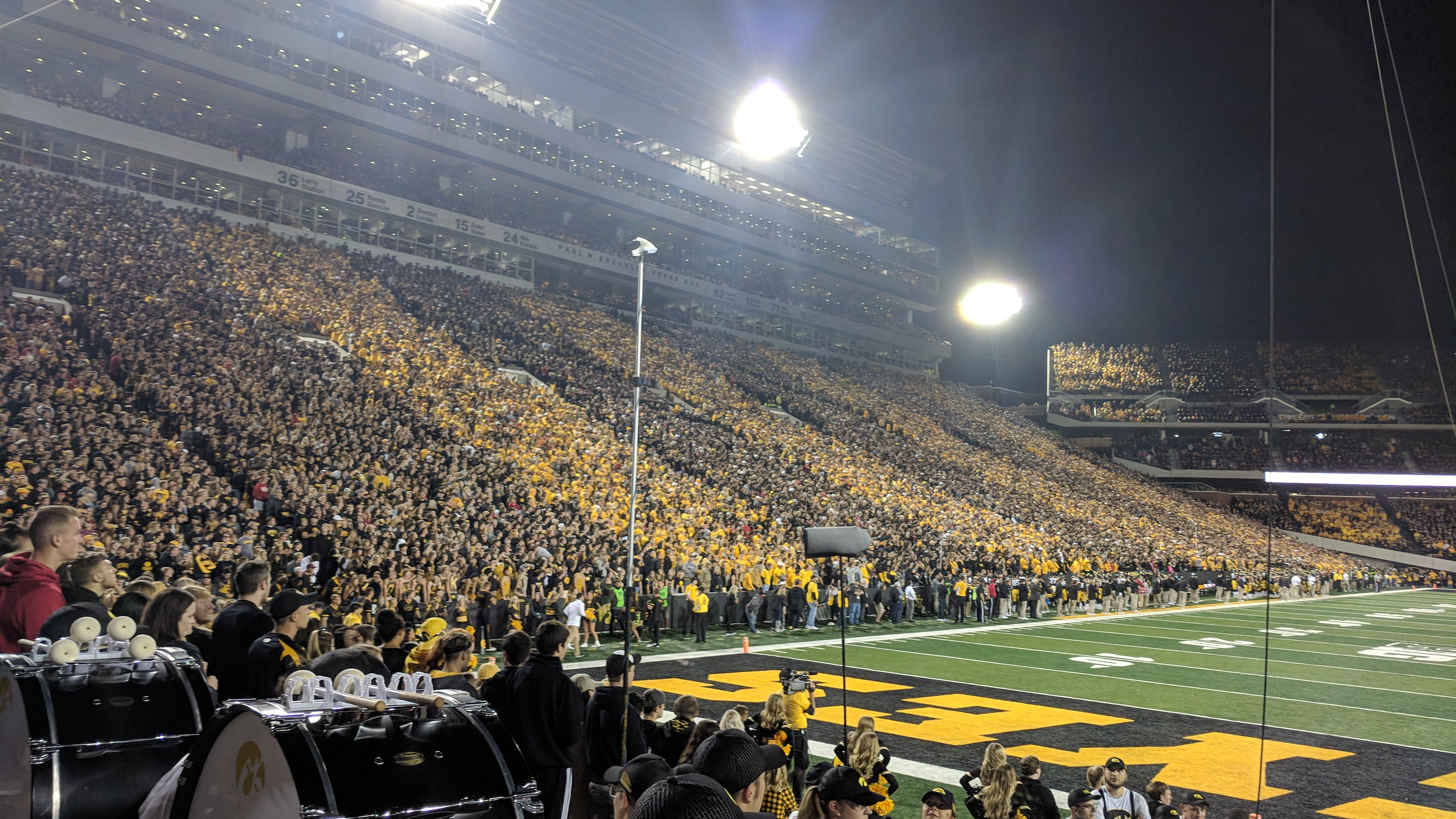 An image of the west grandstand and pressbox at Kinnick Stadium during a stripeout vs. Wisconsin, 2018